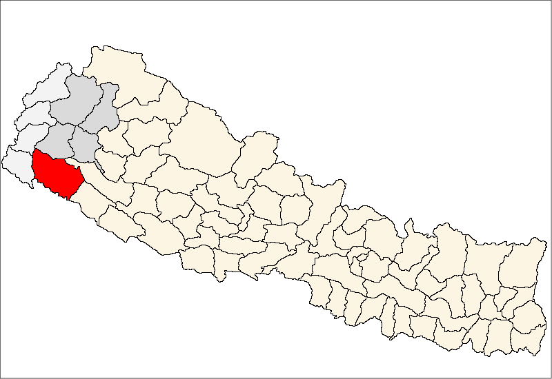 FrenchCarte de localisation dudistrict de Kailali(wp-FR),au Népal (wp-FR).EnglishLocation map ofKailali District(wp-EN),in Nepal (wp-EN).